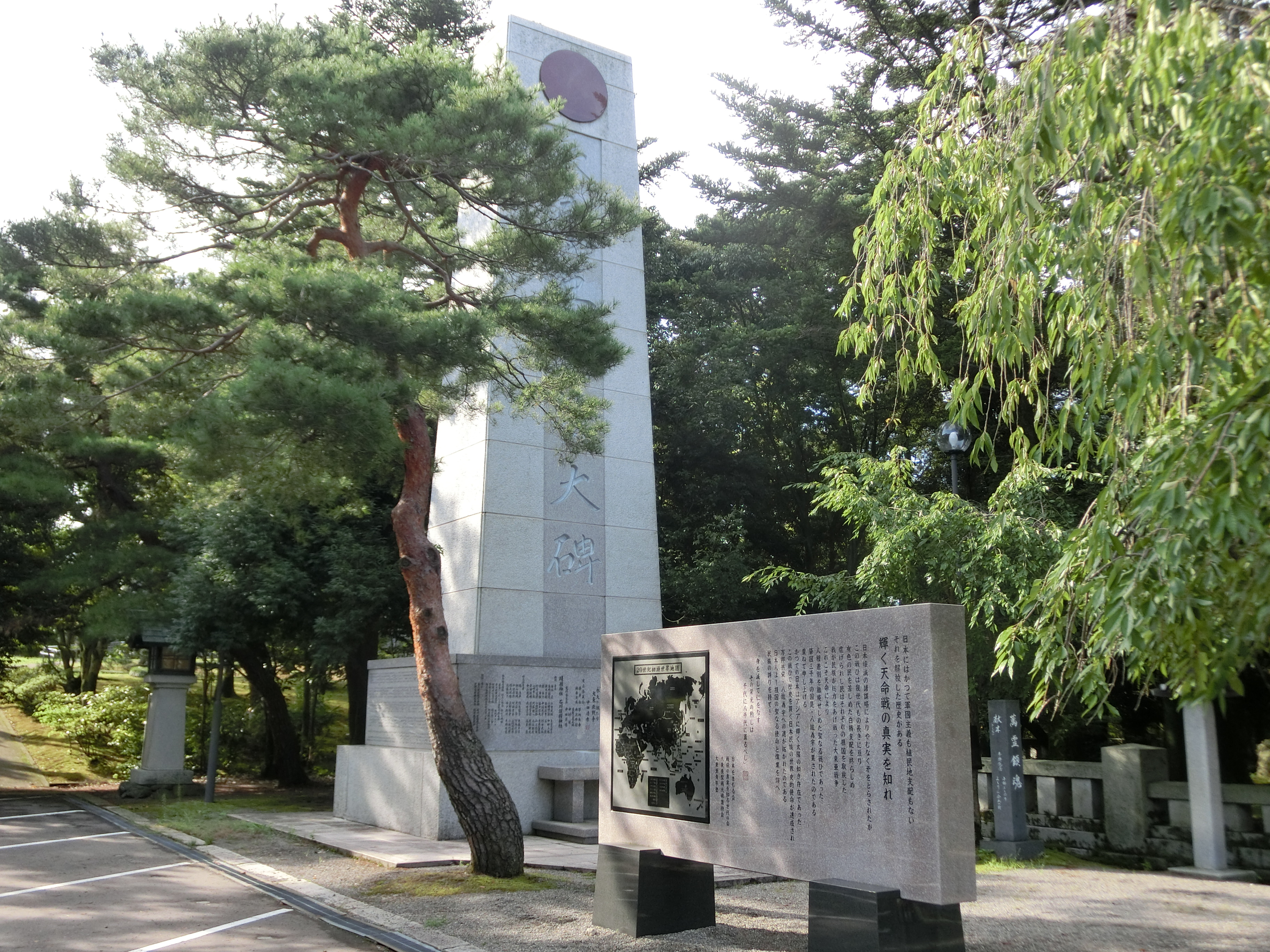 Daitoa Seisen Taihi (Greater East Asian Holy War Monument)